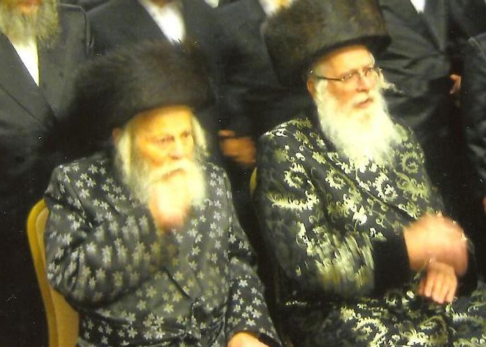 koson